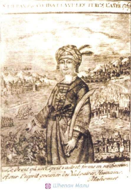 Šćepan Mali, ruler of Montenegro 1767-1773, who posed as the murdered Russian tsar Peter III.